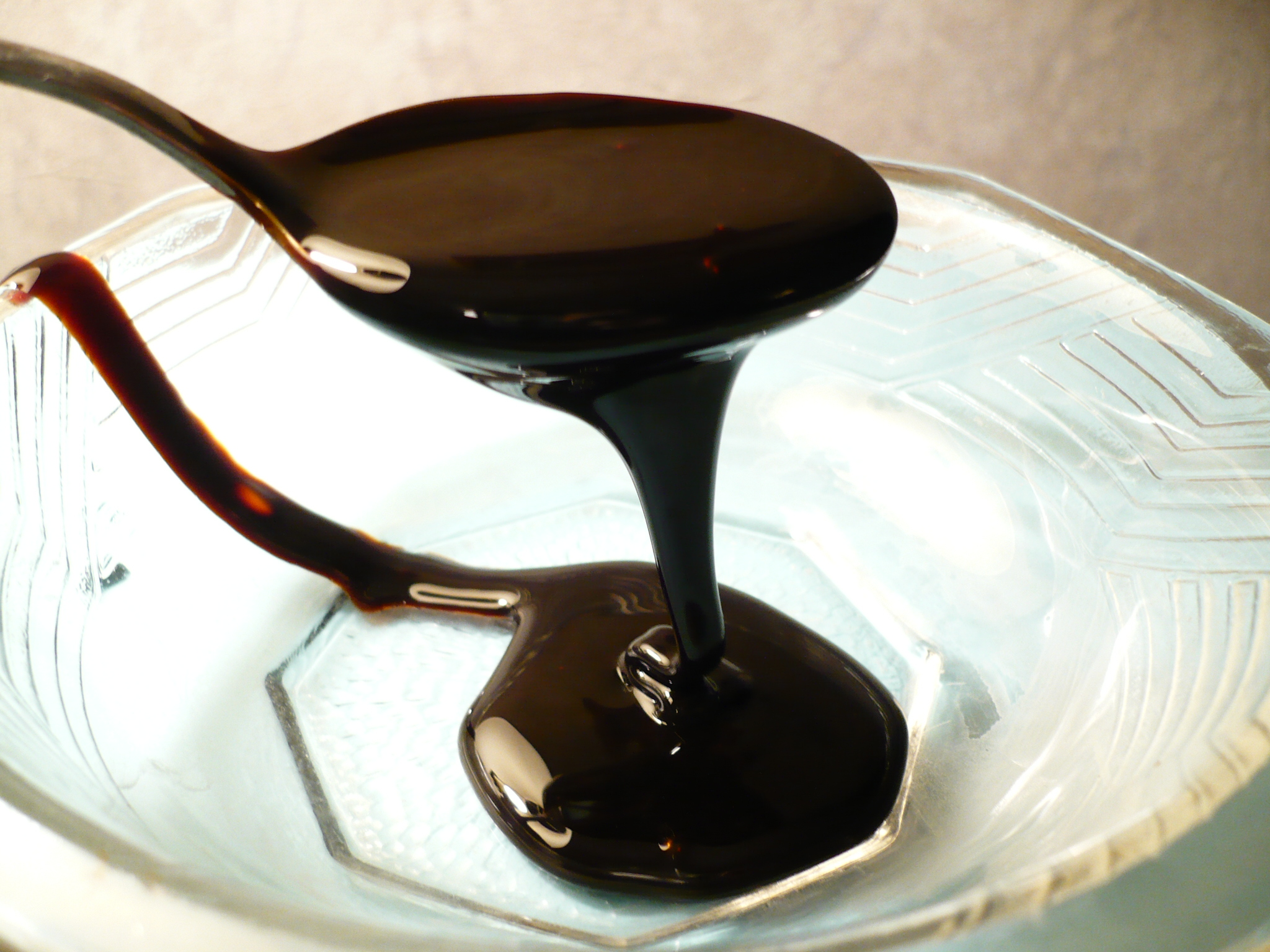 Organically produced blackstrap molasses produced in Paraguay.